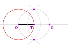 photo1998